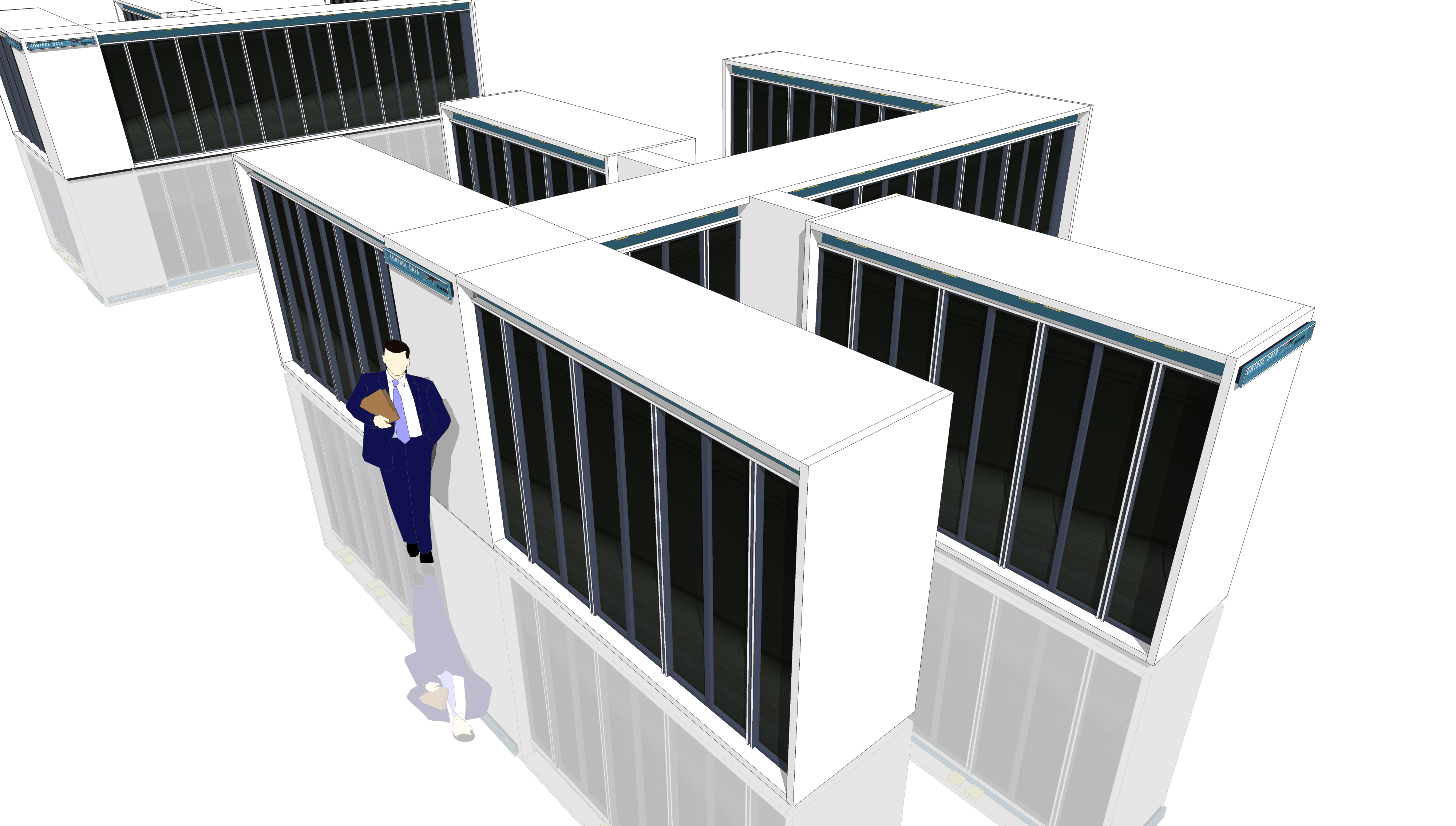 3D rendering of two CDC STAR-100 supercomputers, in the forefront the 8 MB version, and in the background the 4 MB version, with a figure as scale.